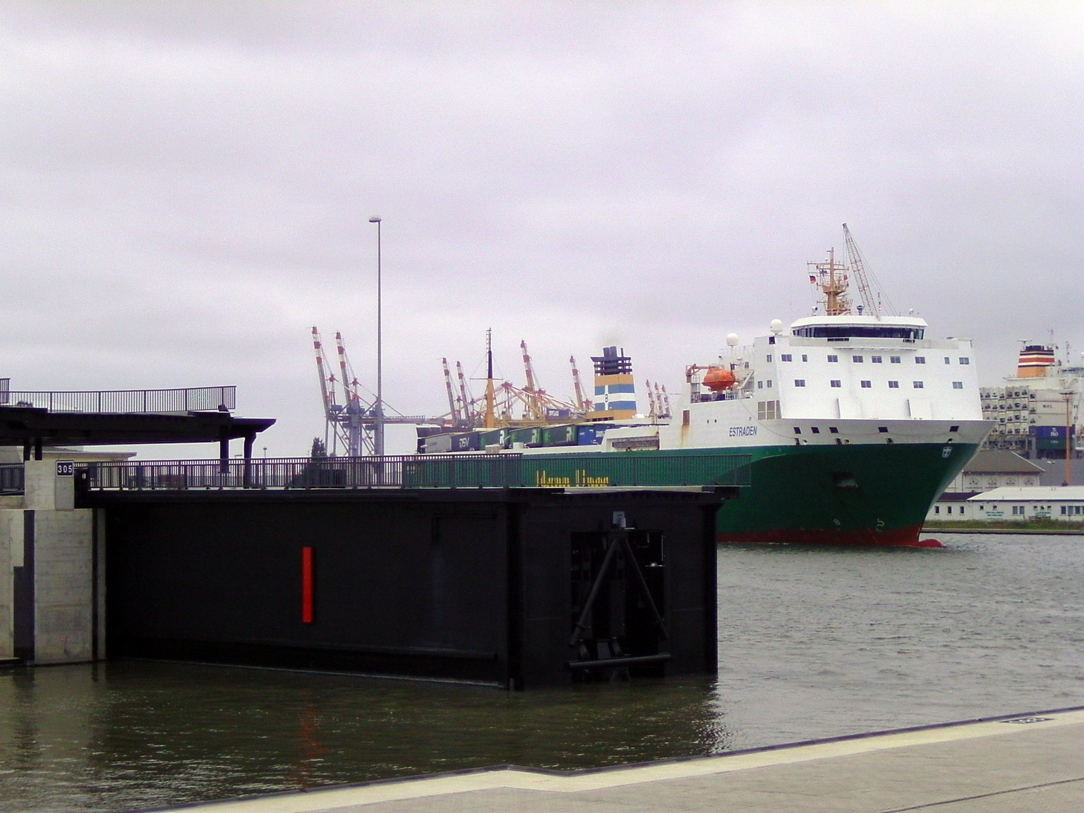 The northern gate of the Kaiserschleuse ship lock in Bremerhaven is being withdrawn so the RoRo ship Estaden is able to enter the lock for leaving the port